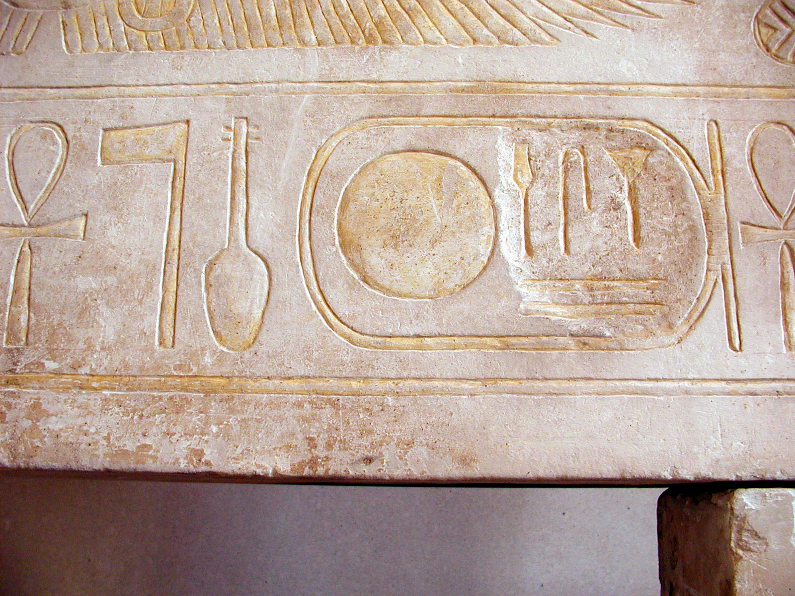 Cartouche of Sobekhotep III, recarved.